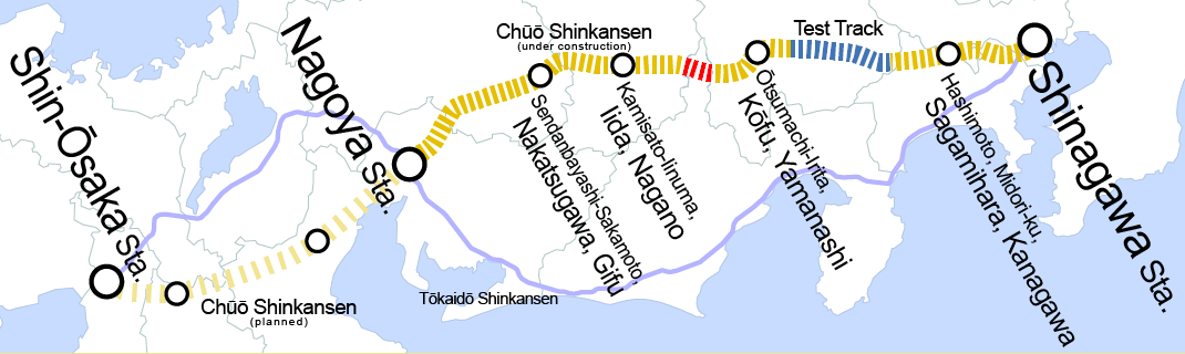 Chūō Shinkansen. Yellow line Chūō Shinkansen. Route proposed by JR Central. Light yellow line Chūō Shinkansen. Route detail is undecided. Red line Yamanashi Test Track.